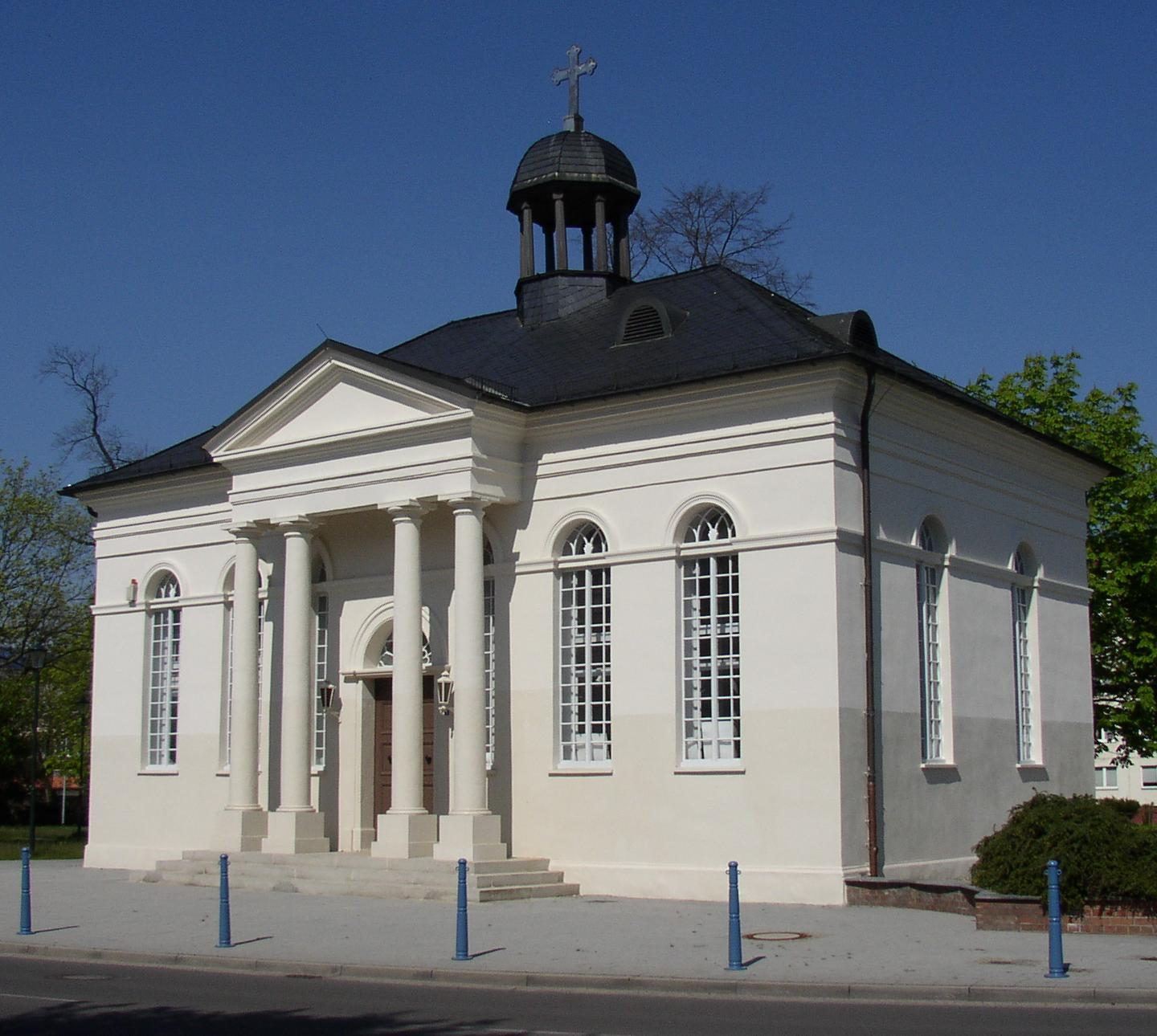 Chapel in Gräfenhainichen in Saxony-Anhalt, Germany